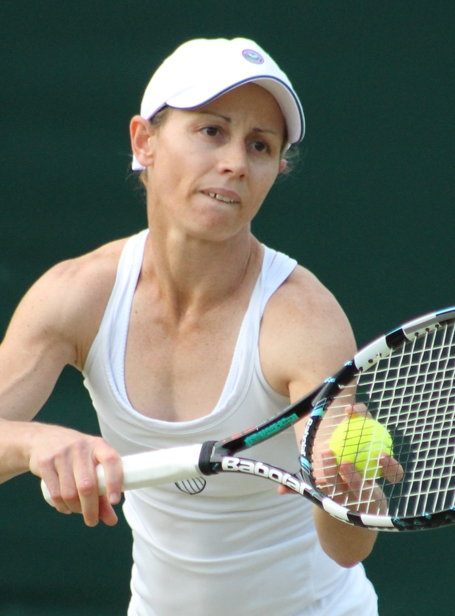 Cara Black WM14 (9)